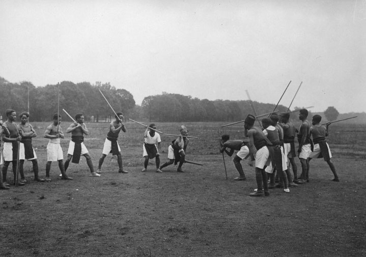 Taisaka warriors (Madagascar)